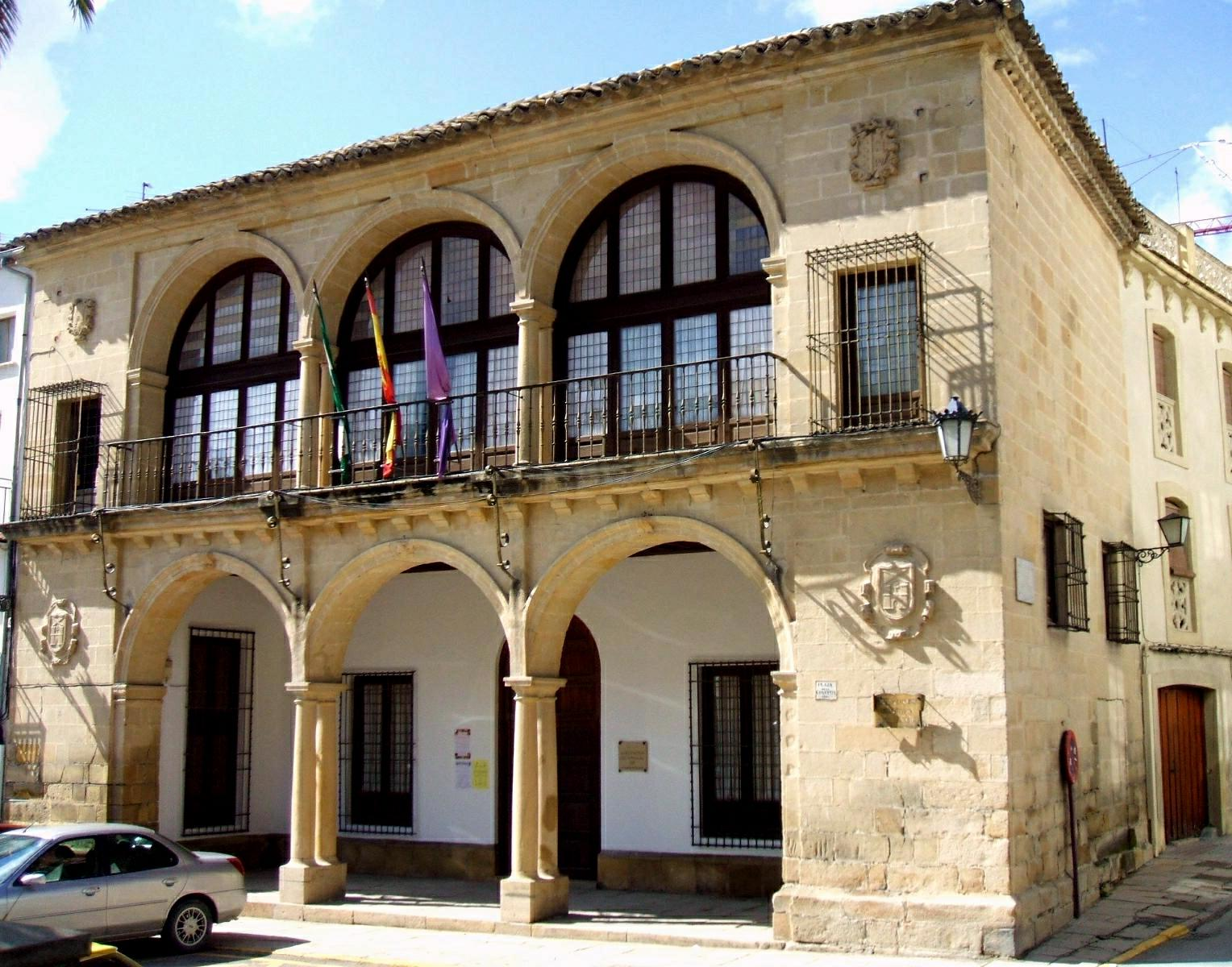 Balcón del Concejo de Baeza (provincia de Jaén, Andalucía, España).